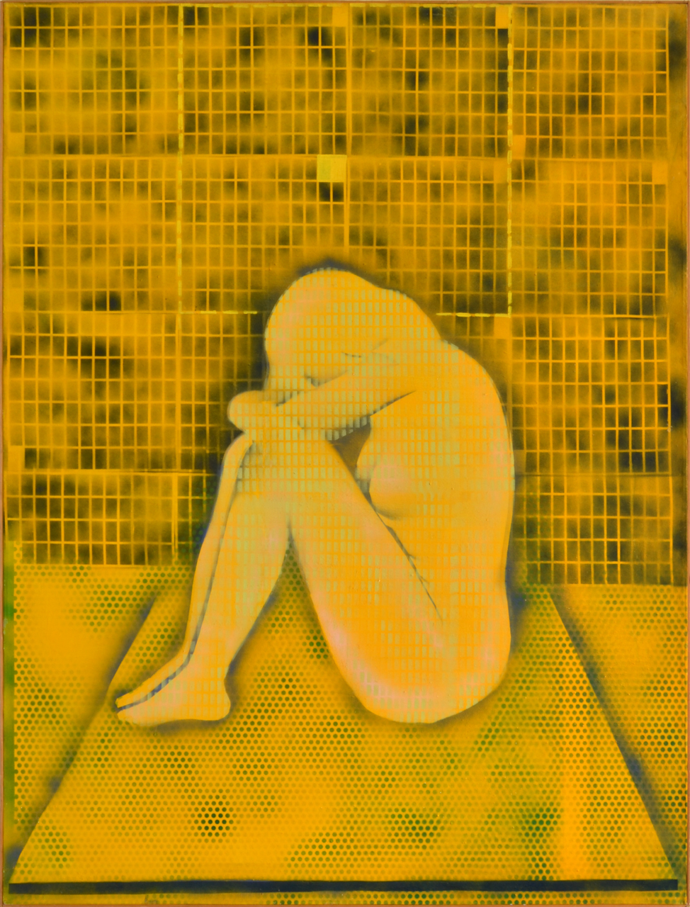 Rudolf Němec, Lost in thought (1985), acryl, email, oil, canvas